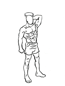 an exercise of triceps